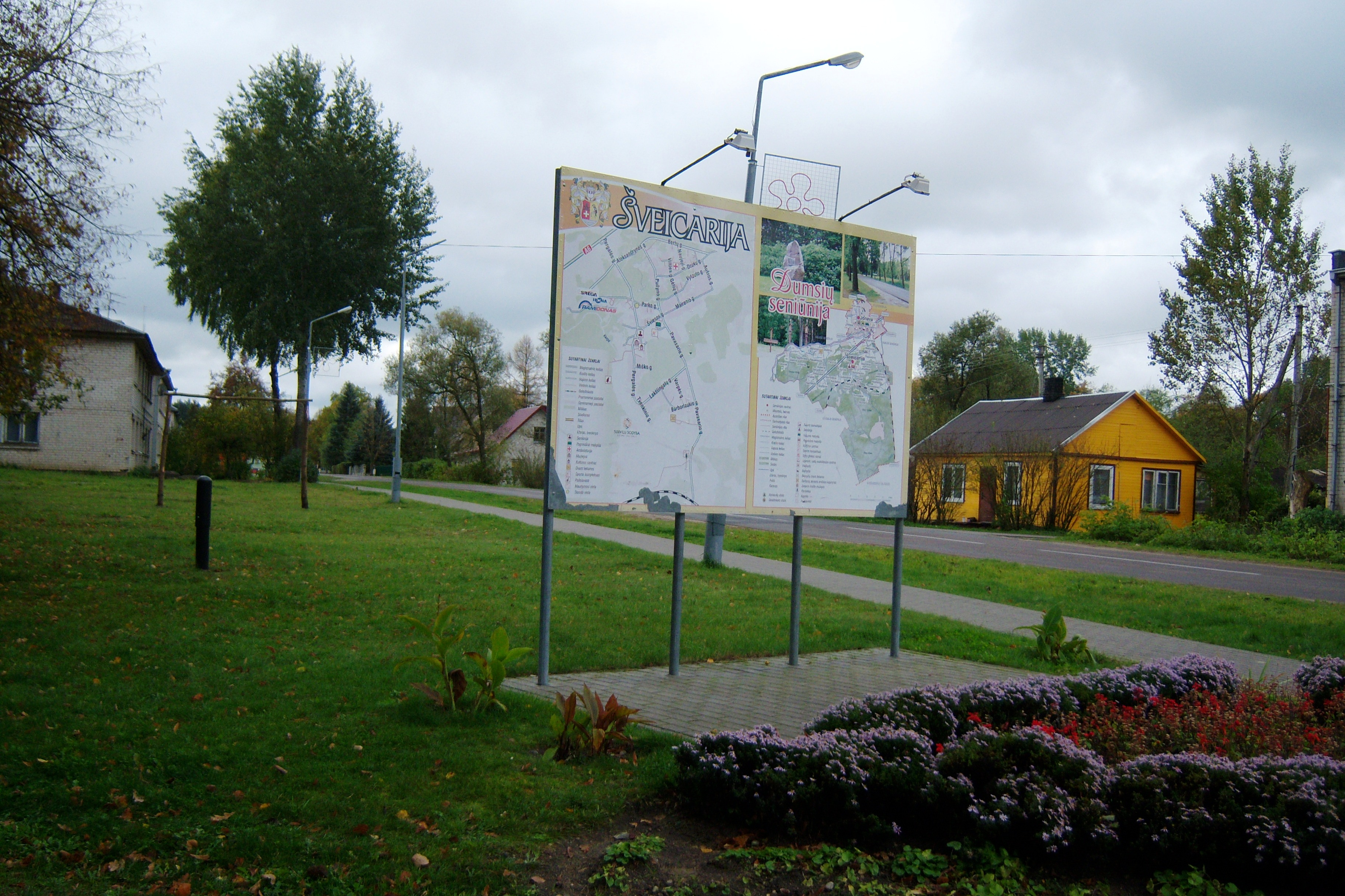 Village of Šveicarija, Jonava District, Lithuania